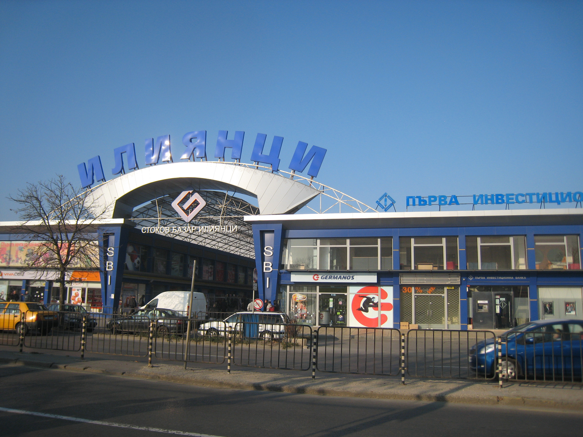 Iliyantsi stock bazar, Sofia, Bulgaria